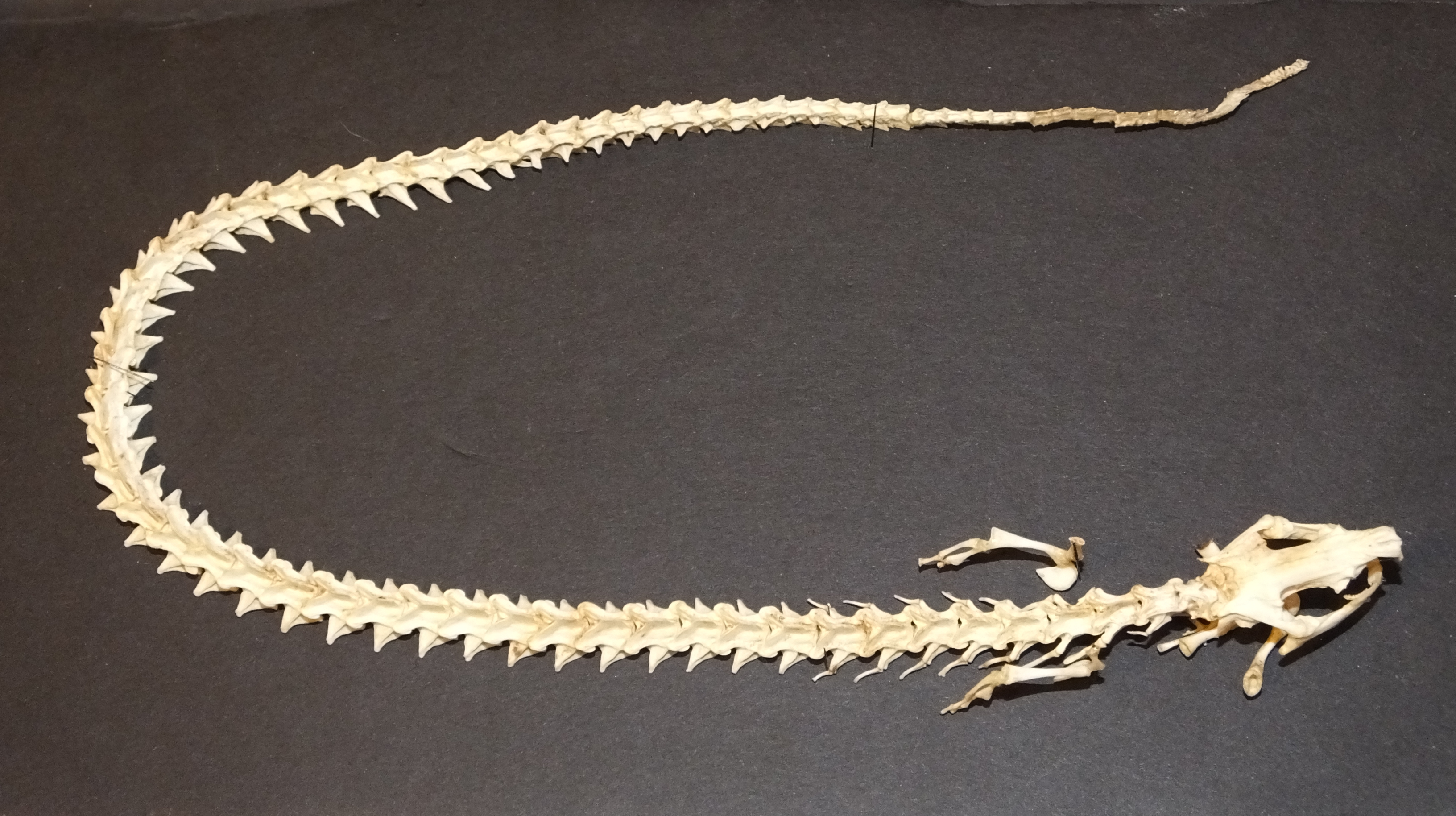 Siren lacertina skeleton (own preparation & mount).